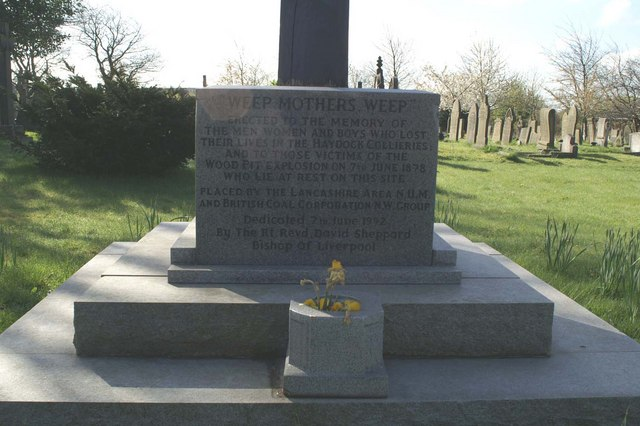 Detail, Haydock Mining Disasters Memorial In the graveyard of St James' Parish Church